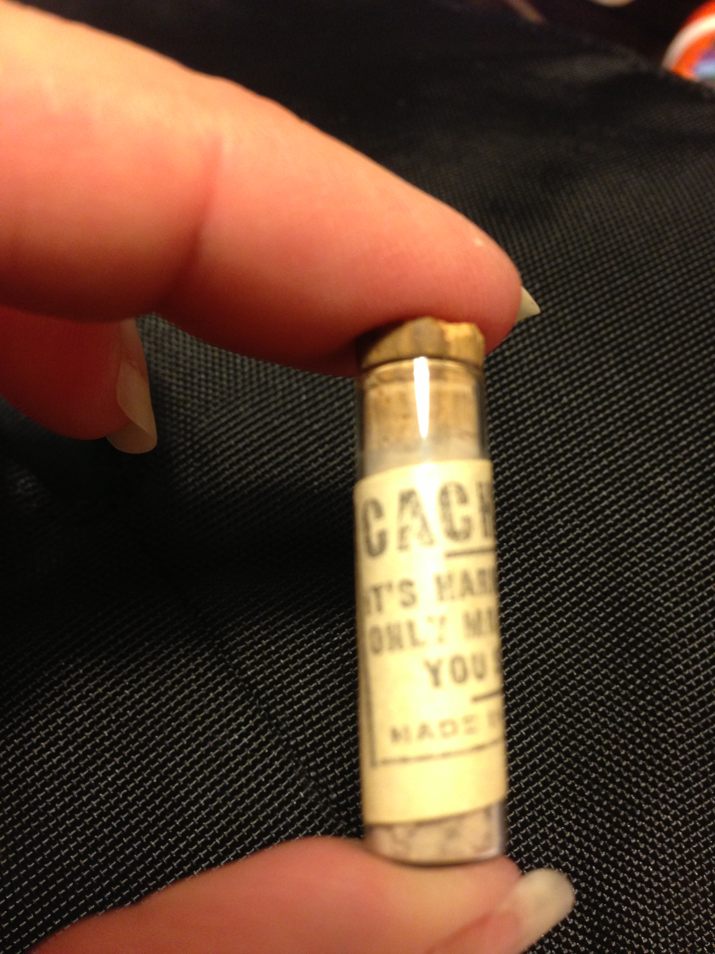 Quite possibly the very last bottle of Cachoo sneezing powder on earth. Originally purchased by Thomas Joseph Murphy of San Francisco in the 1930s.